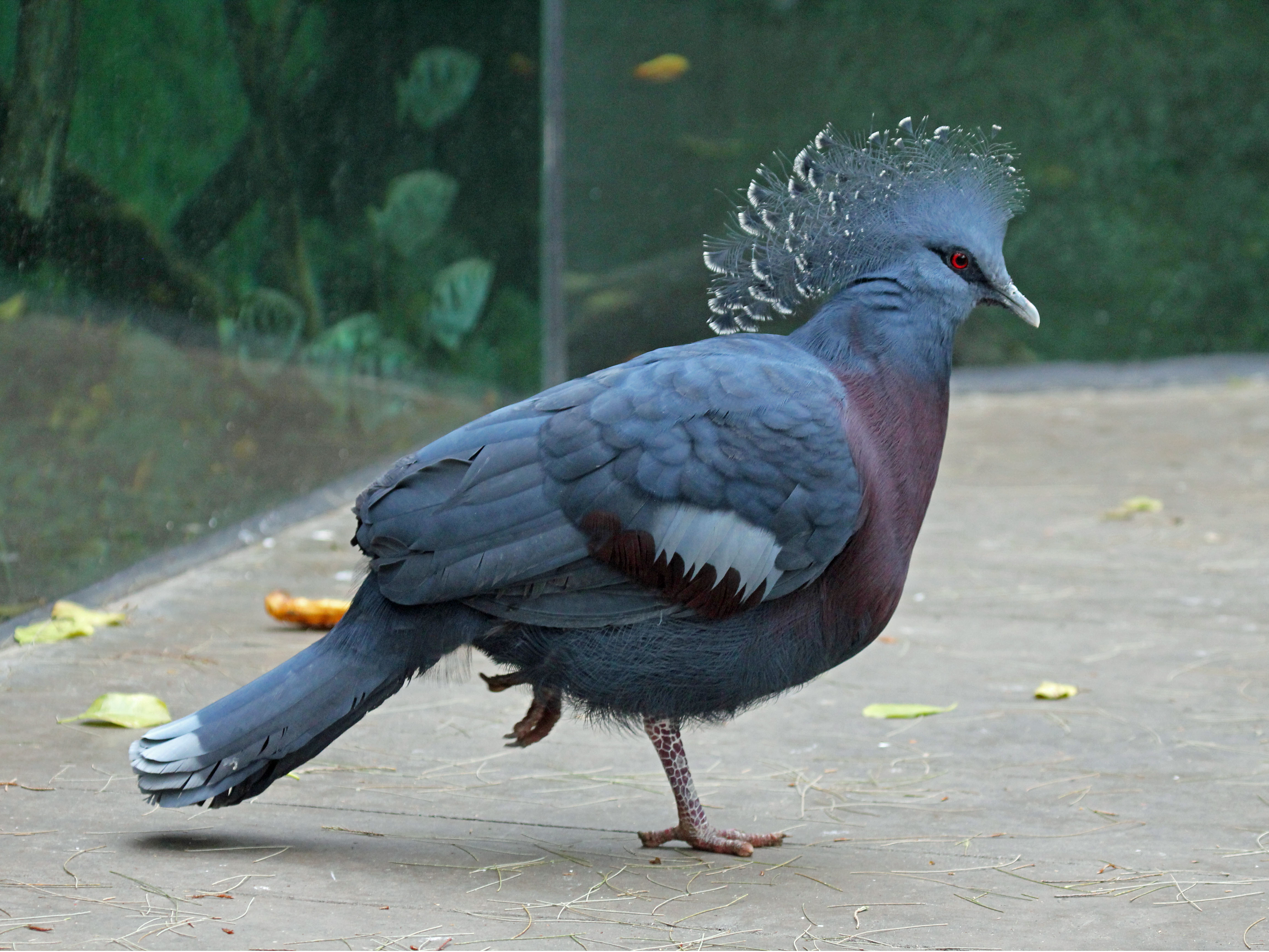 Victoria Crowned Pigeon (Goura victoria) - San Diego Zoo. This bird was very interested by the fish in the tank and making low foghorn like sounds.